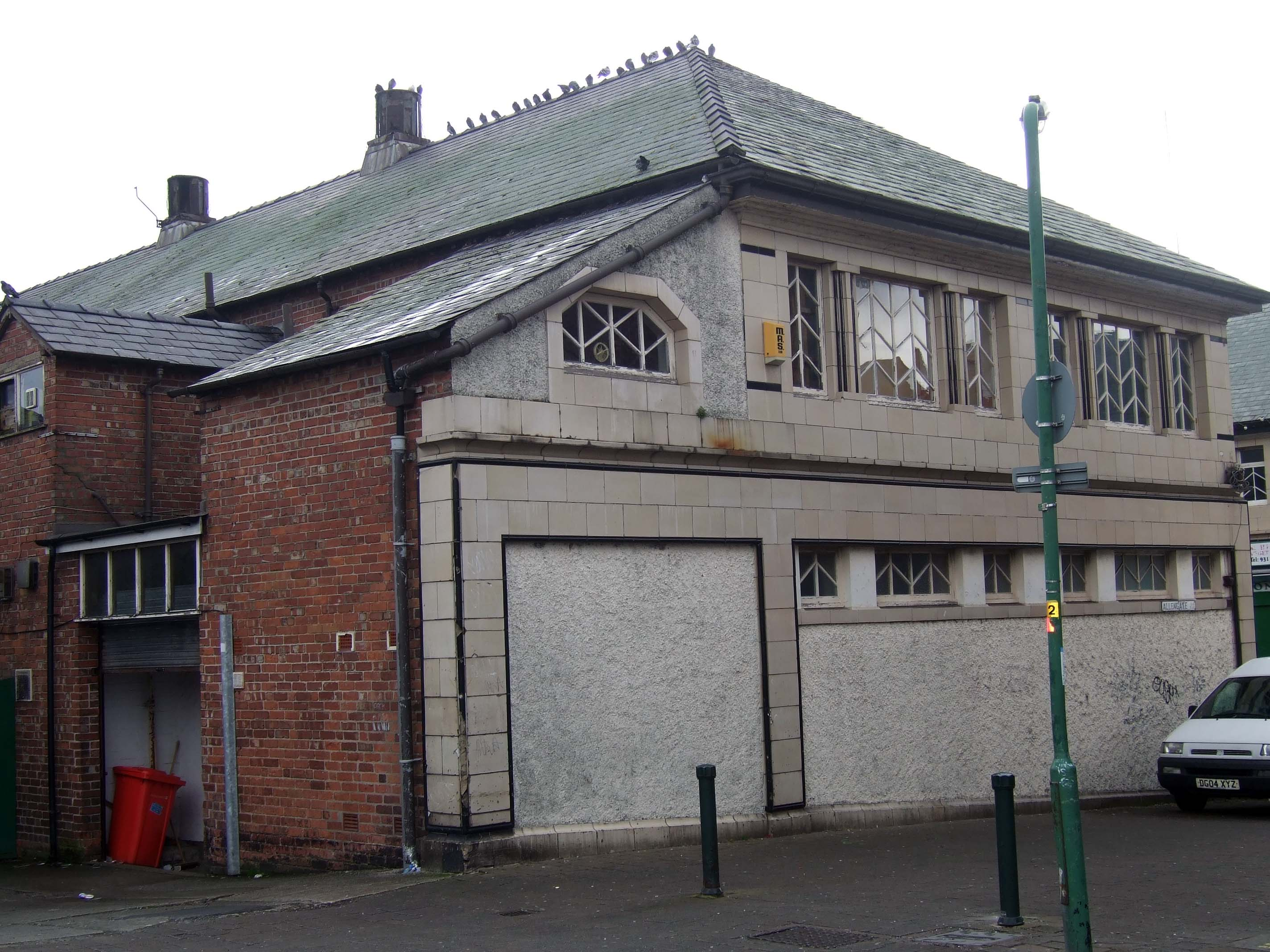 aka St Mary's College Association